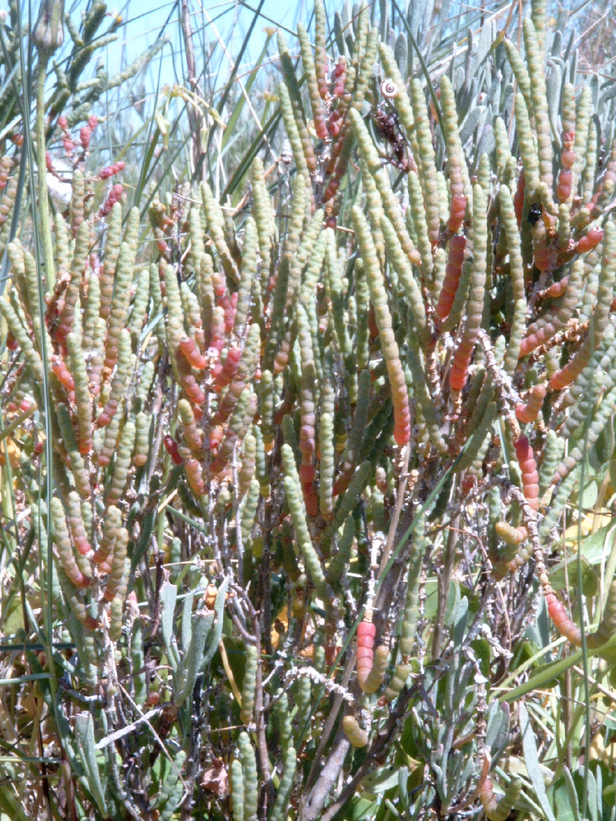 Name Sarcocornia perennis (Mill.) A.J.Scott (Syn. Arthrocnemum perenne) Family Amaranthaceae Subfamily Chenopodioideae